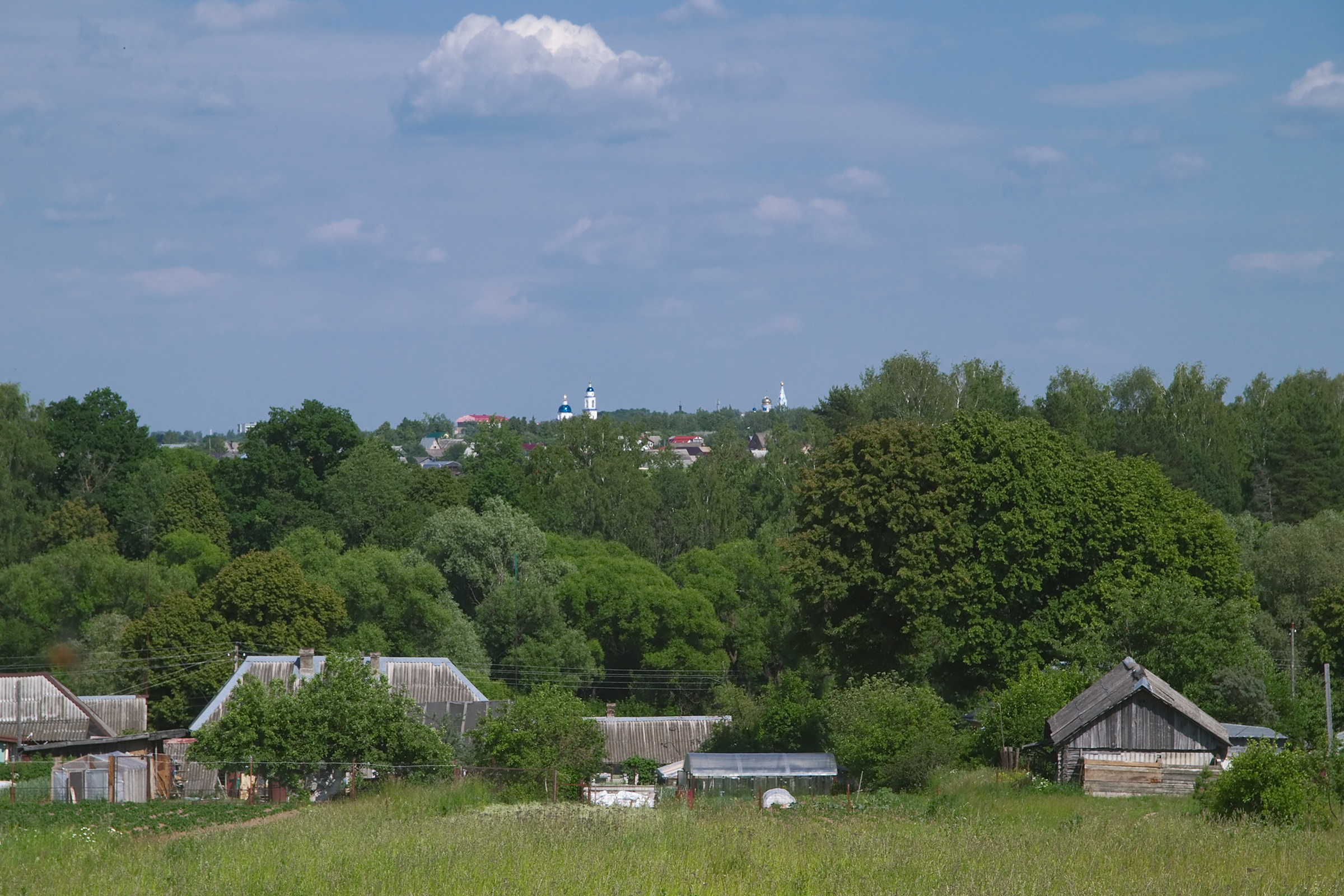 Terentyevo, a small but very old village just NW of Maloyaroslavets. The city center with its two cathedrals is right ahead.